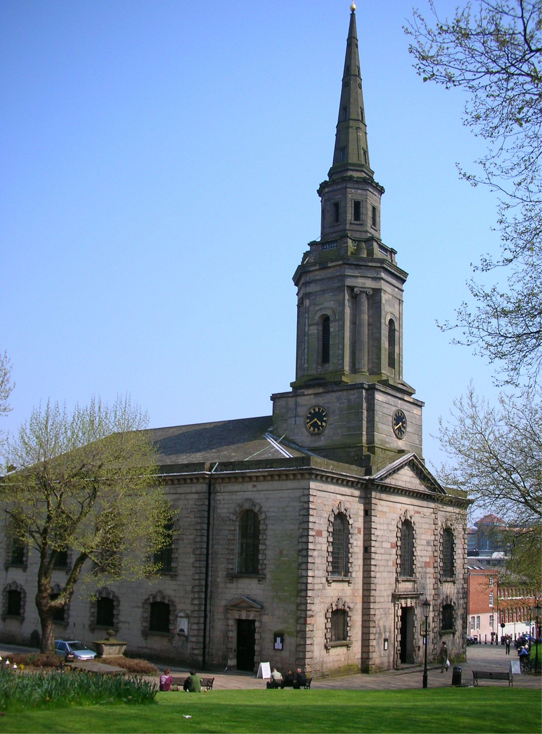 St Paul's church, Birmingham, England. Photographed 10 May 2006.